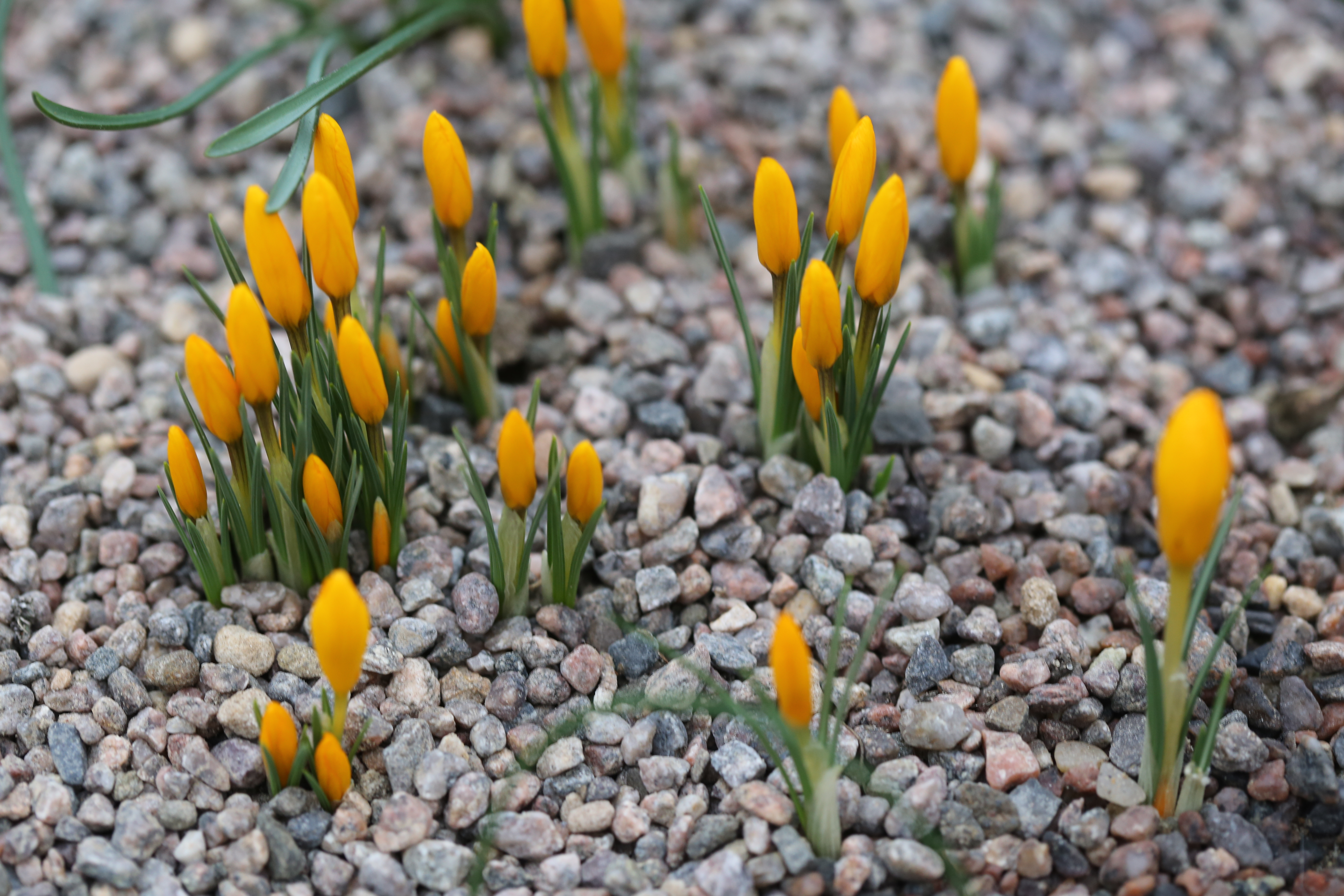 Crocus chrysanthus at Gothenburg botanical garden in 2015. Plant id: 1988-0259 p W; S&Z 88-059